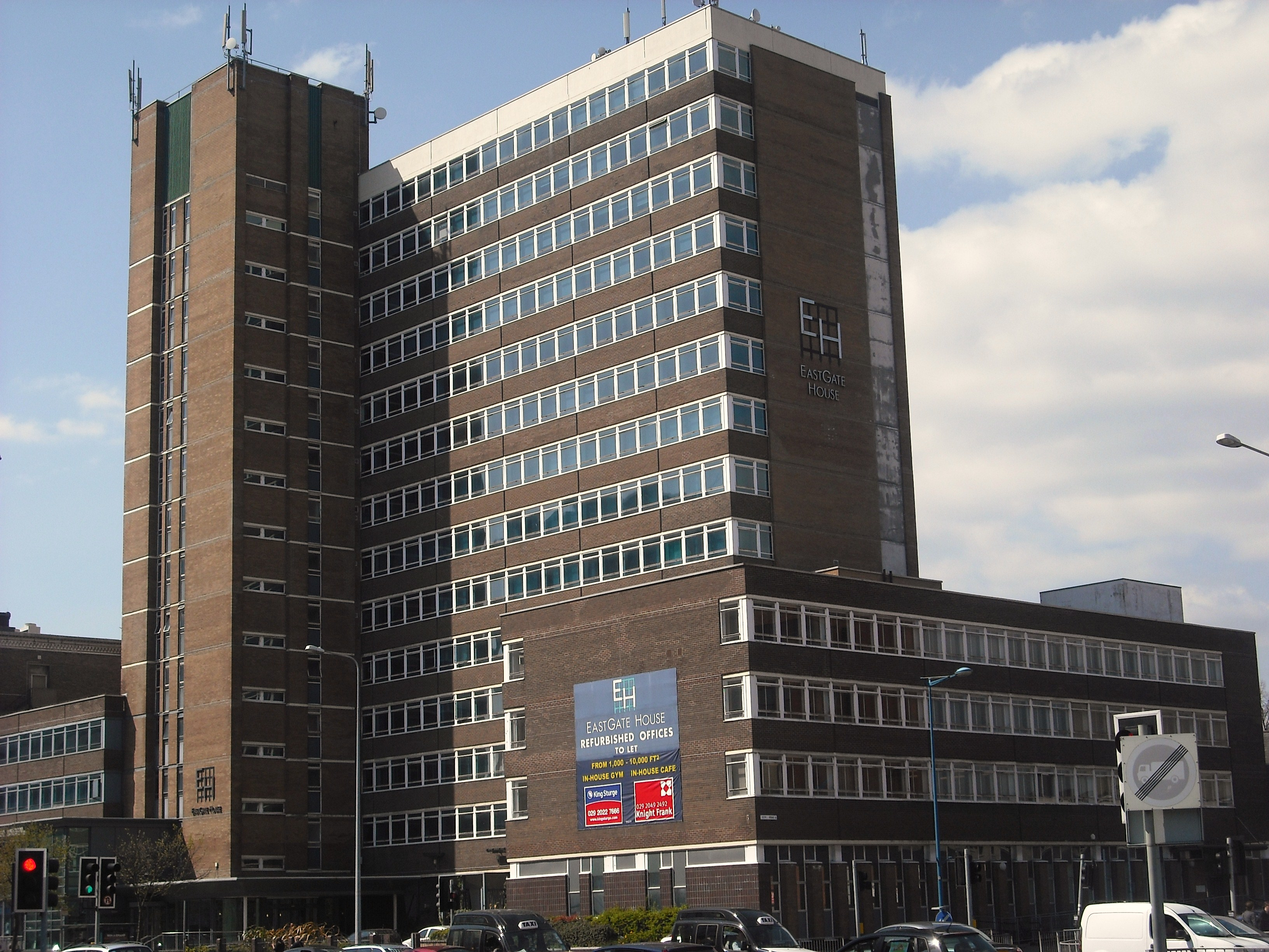 Eastgate House office tower in Cardiff, previously known as Heron House